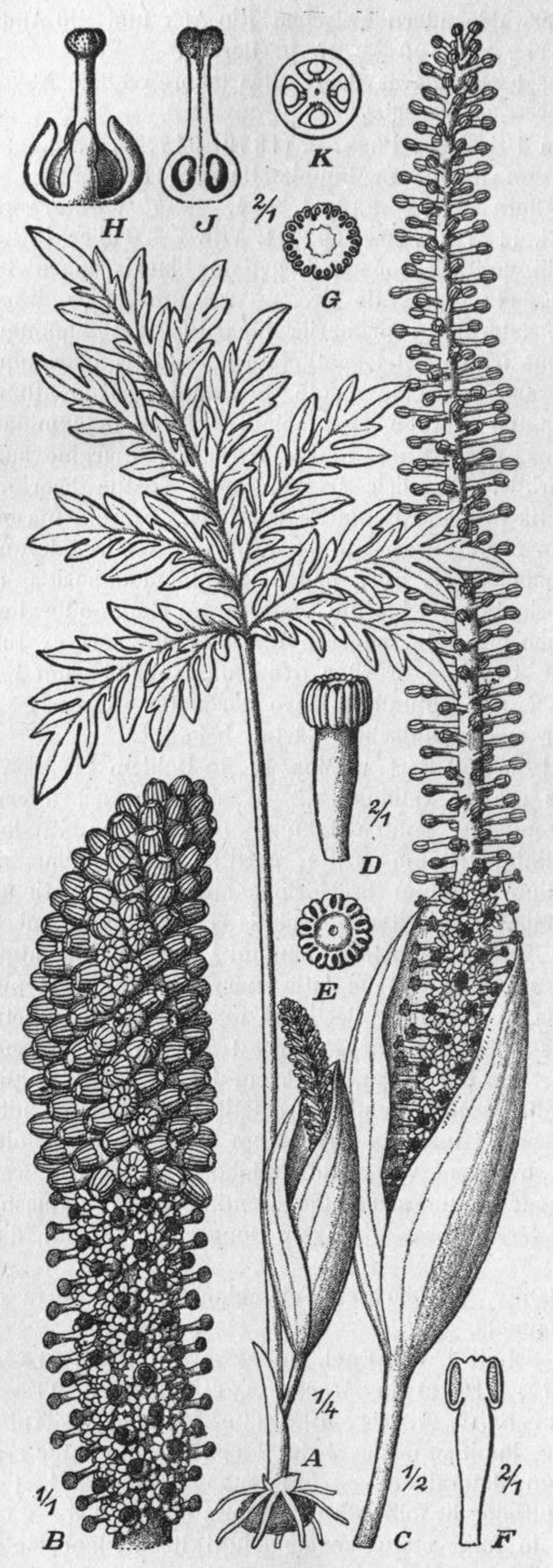 Taccarum weddellianum drawing from Das Pflanzenreich